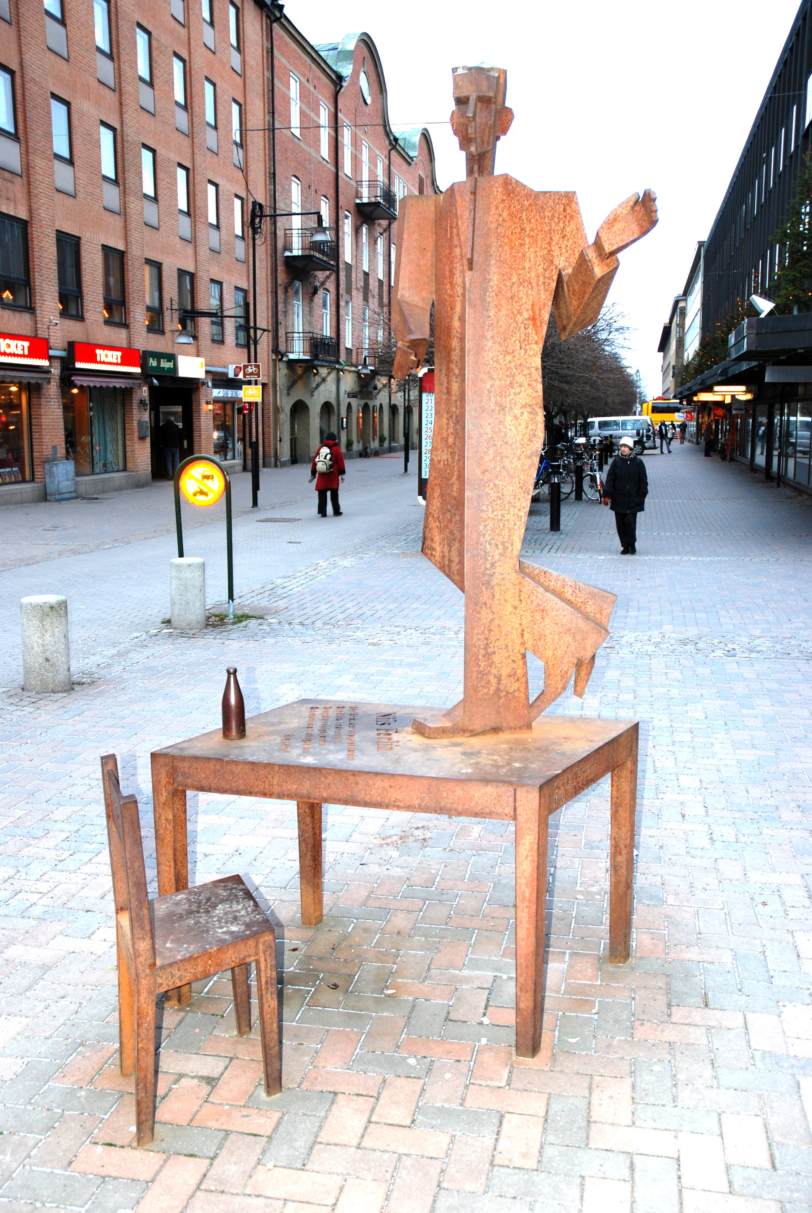 Portrait of Swedish poet Nils Ferlin (2002), corten steel, Karlstad, Sweden